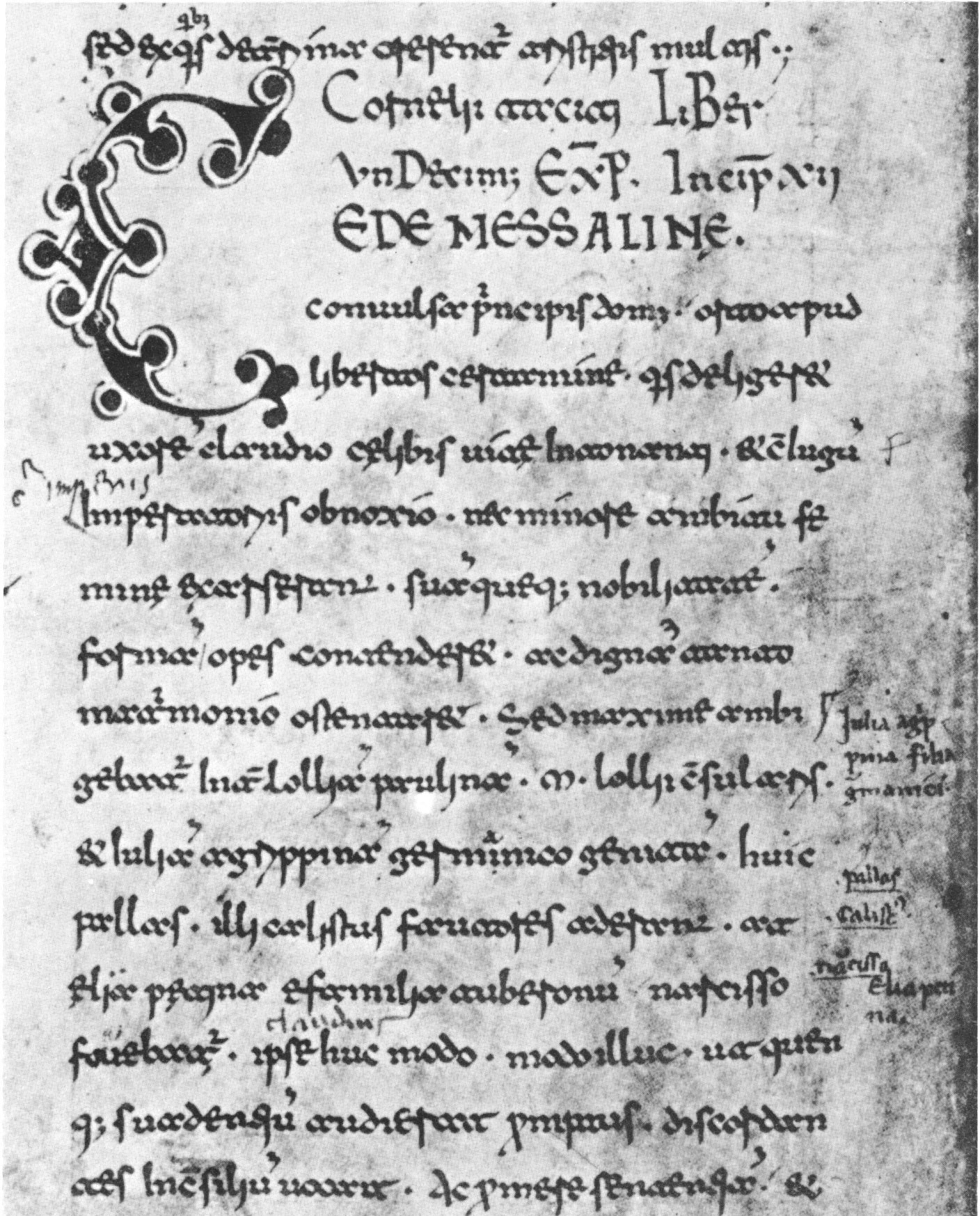 Tacitus, Annals, end of Book 11 und beginning of Book 12, in ms. Florence, Biblioteca Medicea Laurenziana, Plut. 68,2, fol. 6v.